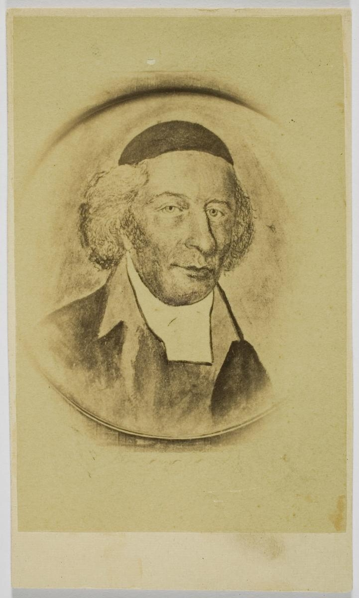 Image (drawing) of the Finnish priest and wroter Nils Aejmelaeus (1812–1854).